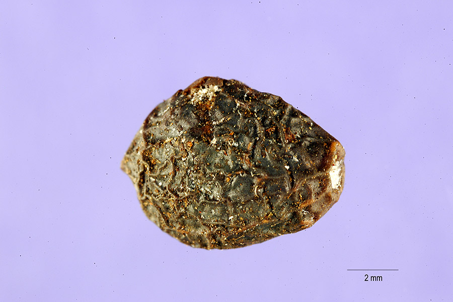 Seed of Pistacia atlantica